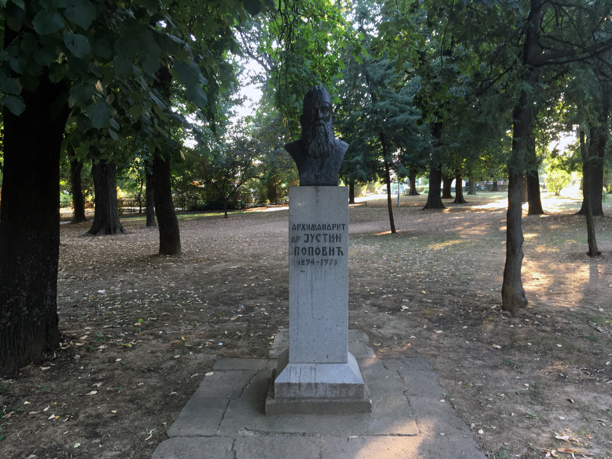 A monument to Orthodox theologian, writer and professor Justin Popovic in his hometown Vranje. Српски (ћирилица): Спомених Јустину Поповићу у граду Врању. Srpskohrvatski / српскохрватски: Spomenik Justinu Popoviću u njegovom rodnom gradu Vranju.